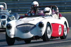 The Number 347 Austin Healey 100 driven by Rich Maloumian